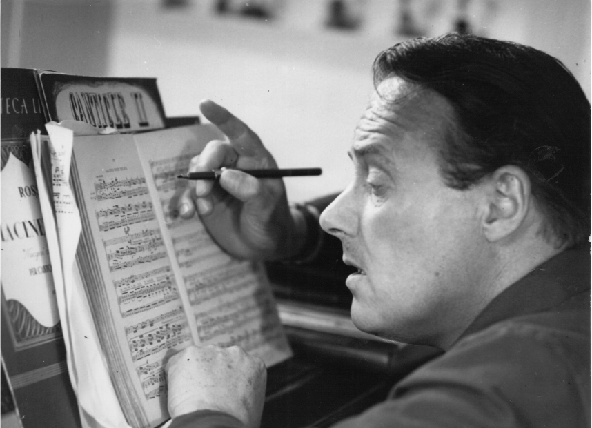 This is a picture of British tenor Richard Lewis, taken (probably) in the late 1950s by a freelance contracted photographer to promote his burgeoning career in the US to be used by US newspapers.